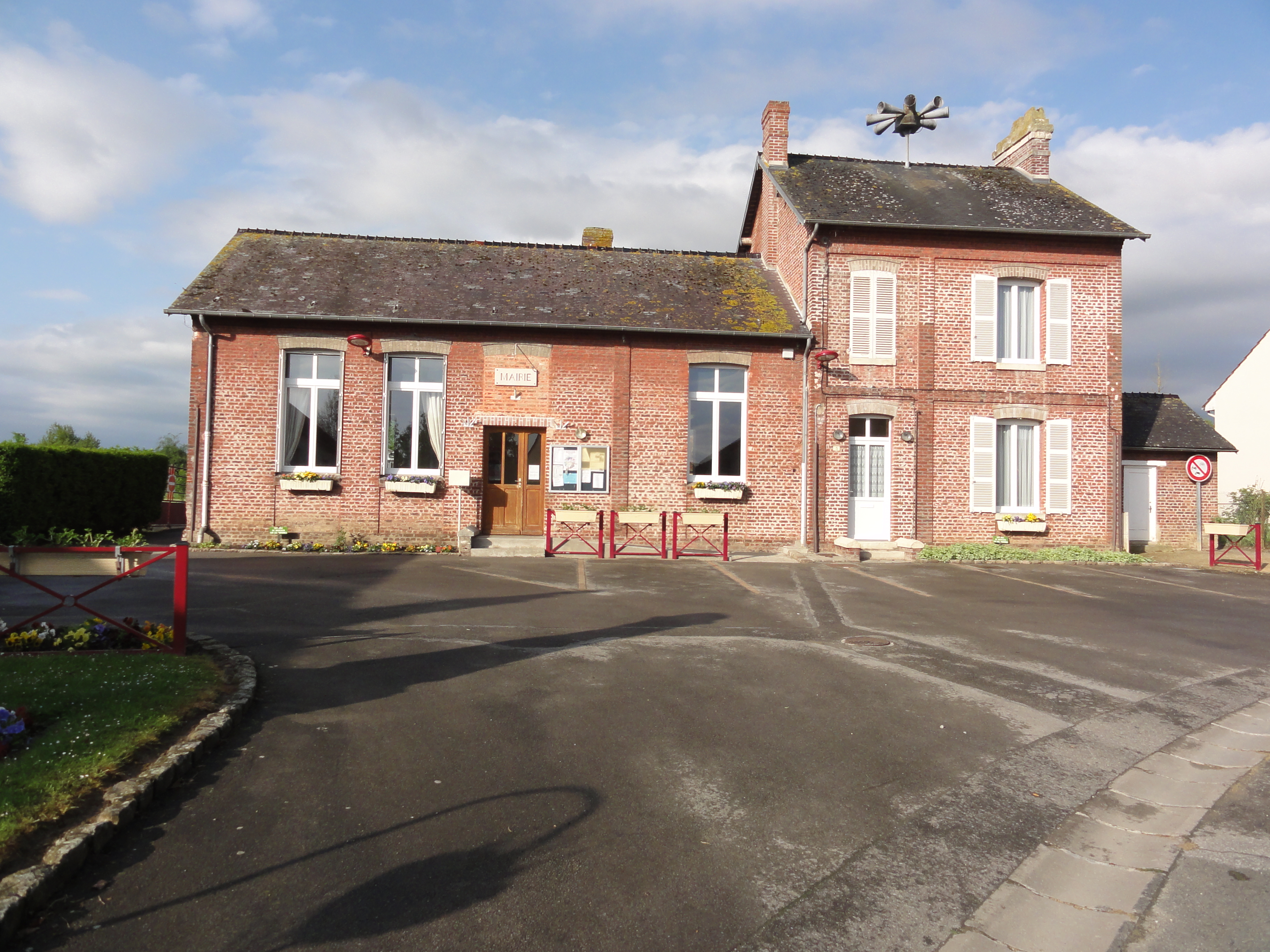 Besny et Loizy (Aisne) mairie